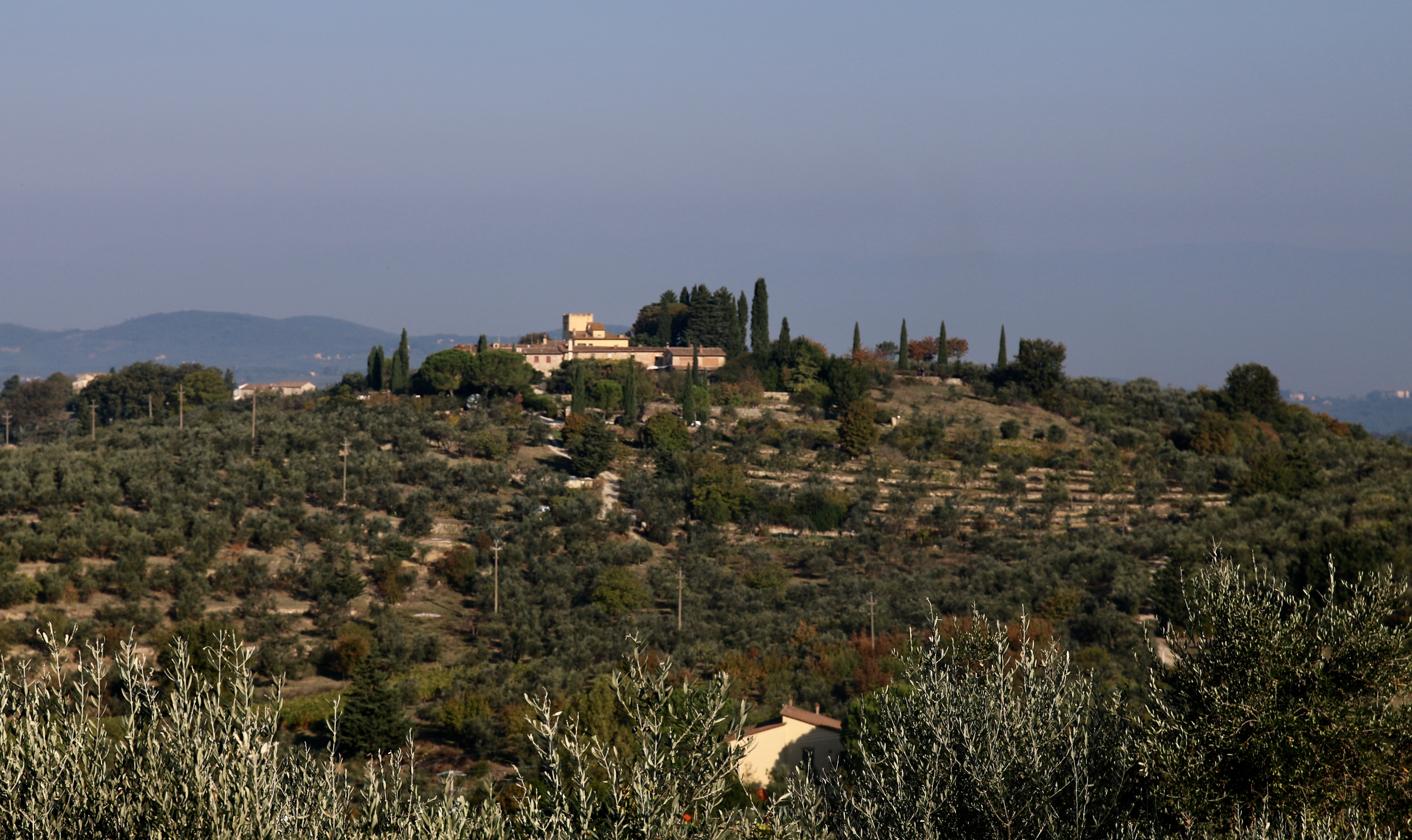 The hamlet Fornacelle in the community of Greve in Chianti.